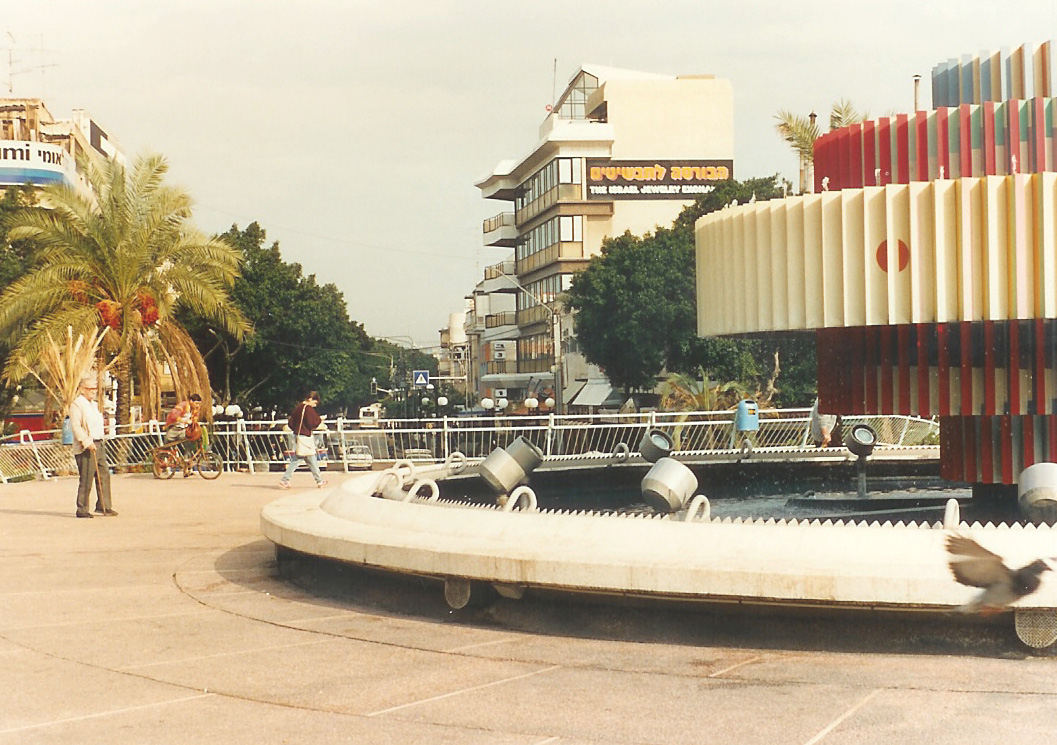 Israel, Tel Aviv, Dizengoff Square